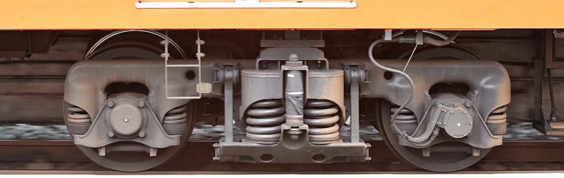 Type TR212 Bogie truck of JR West's JNR 103 series EMU (KM6F, kuha 103-842).